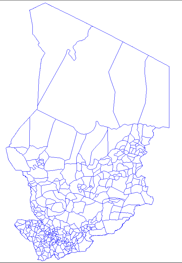 Map of the sub-prefectures of Chad. Created by Rarelibra 19:22, 10 April 2007 (UTC) for public domain use, using MapInfo Professional v8.5 and various mapping resources.